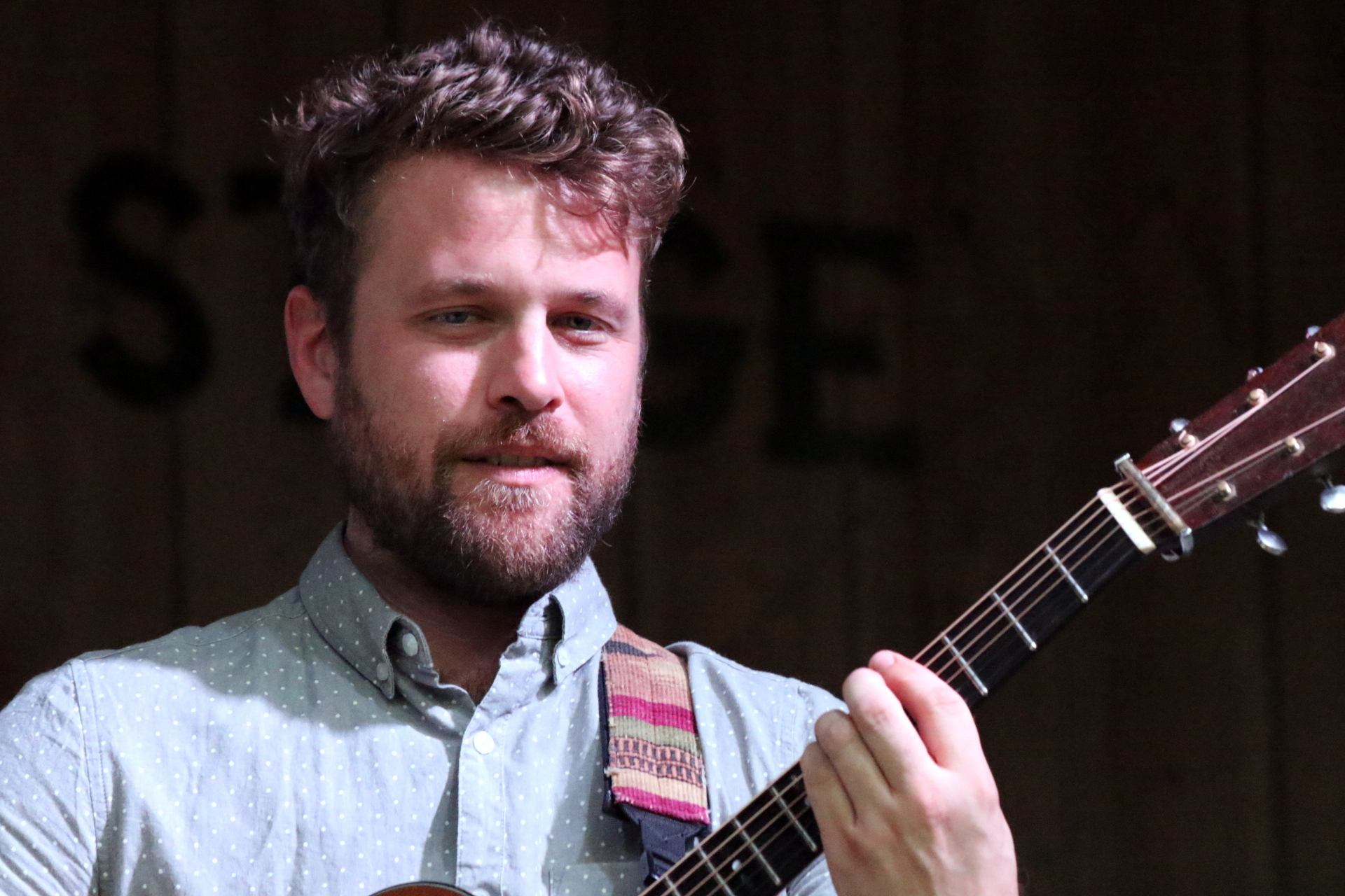 Jon Stickley